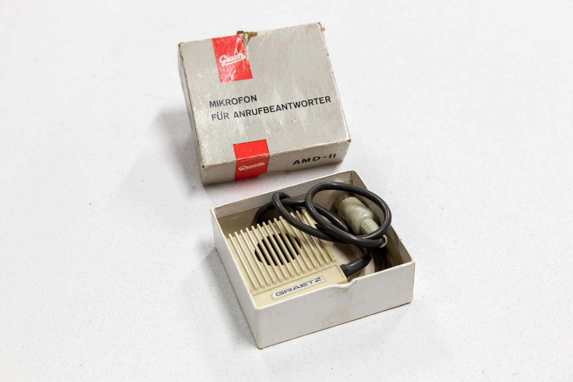 Microphone for answering machine. Made by Graetz, Germany, 1960ies. Museum für Kommunikation, Frankfurt, Germany. Photo by Maximilian Schönherr with help from Lioba Nägele.